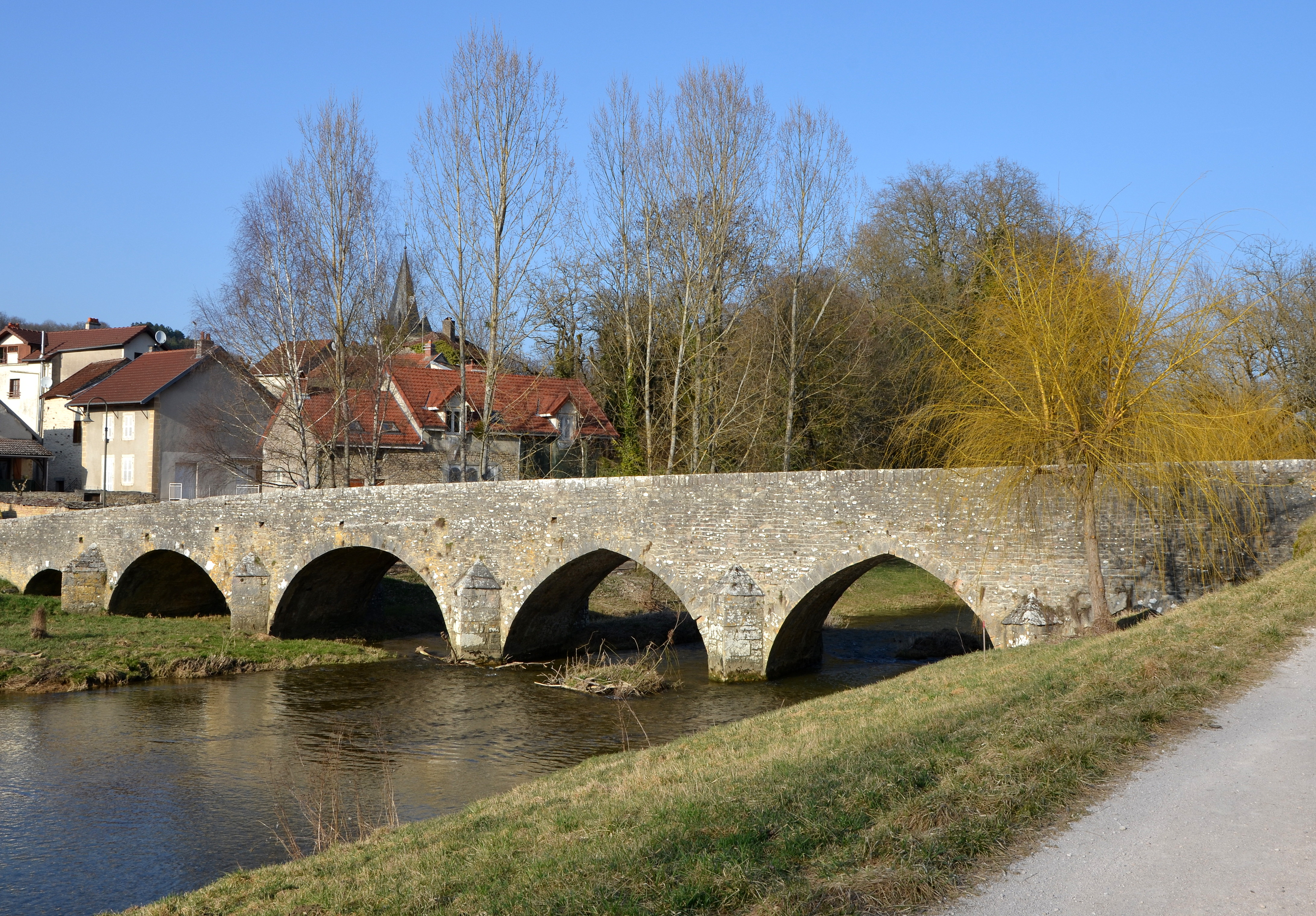 Bridge over the river Ouche at Gissey sur Ouche (18th century), Cote d'Or, France